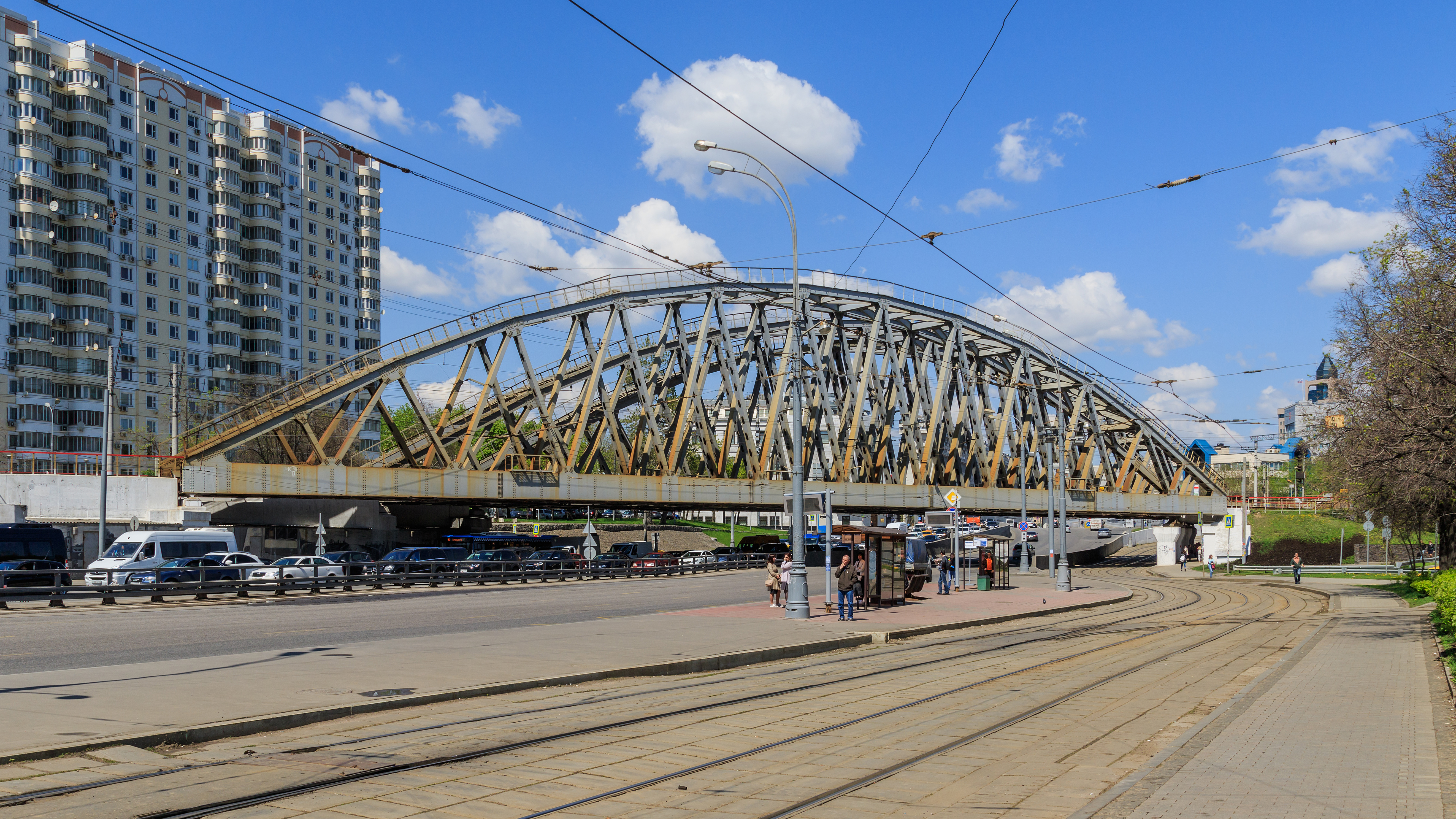 Railway bridge of Paveletskoe railway direction over Varshavskoe Highway in Moscow (Russia).